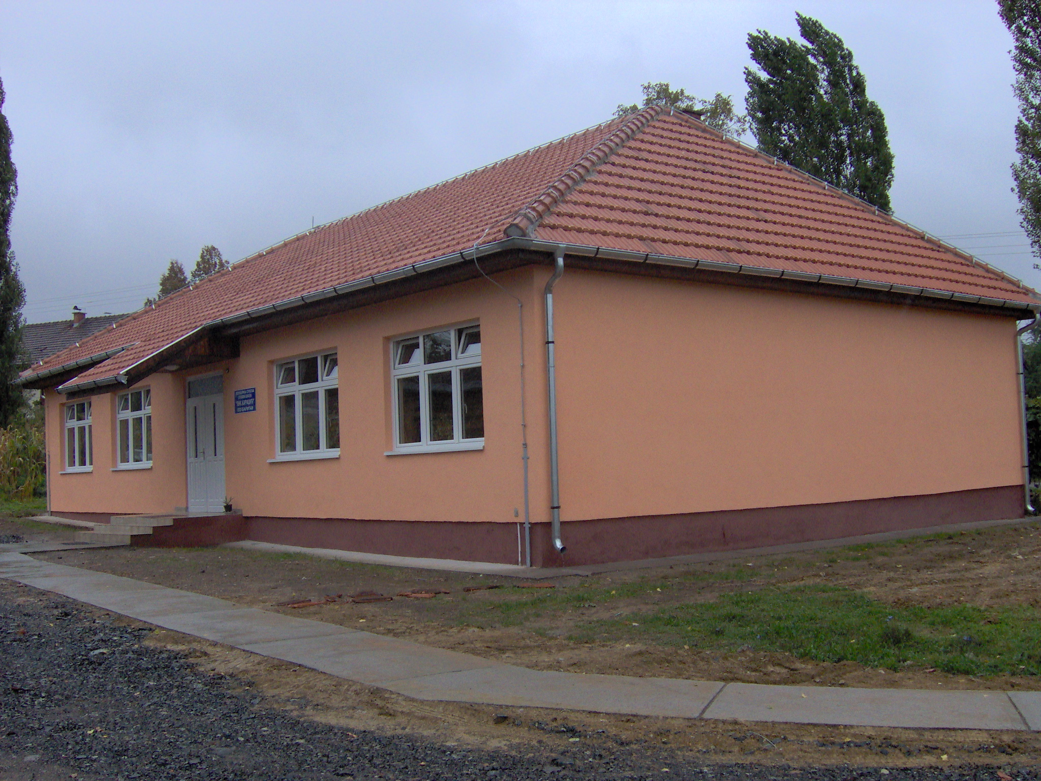 School in Barici, Teslic, Srpska, Bosnia